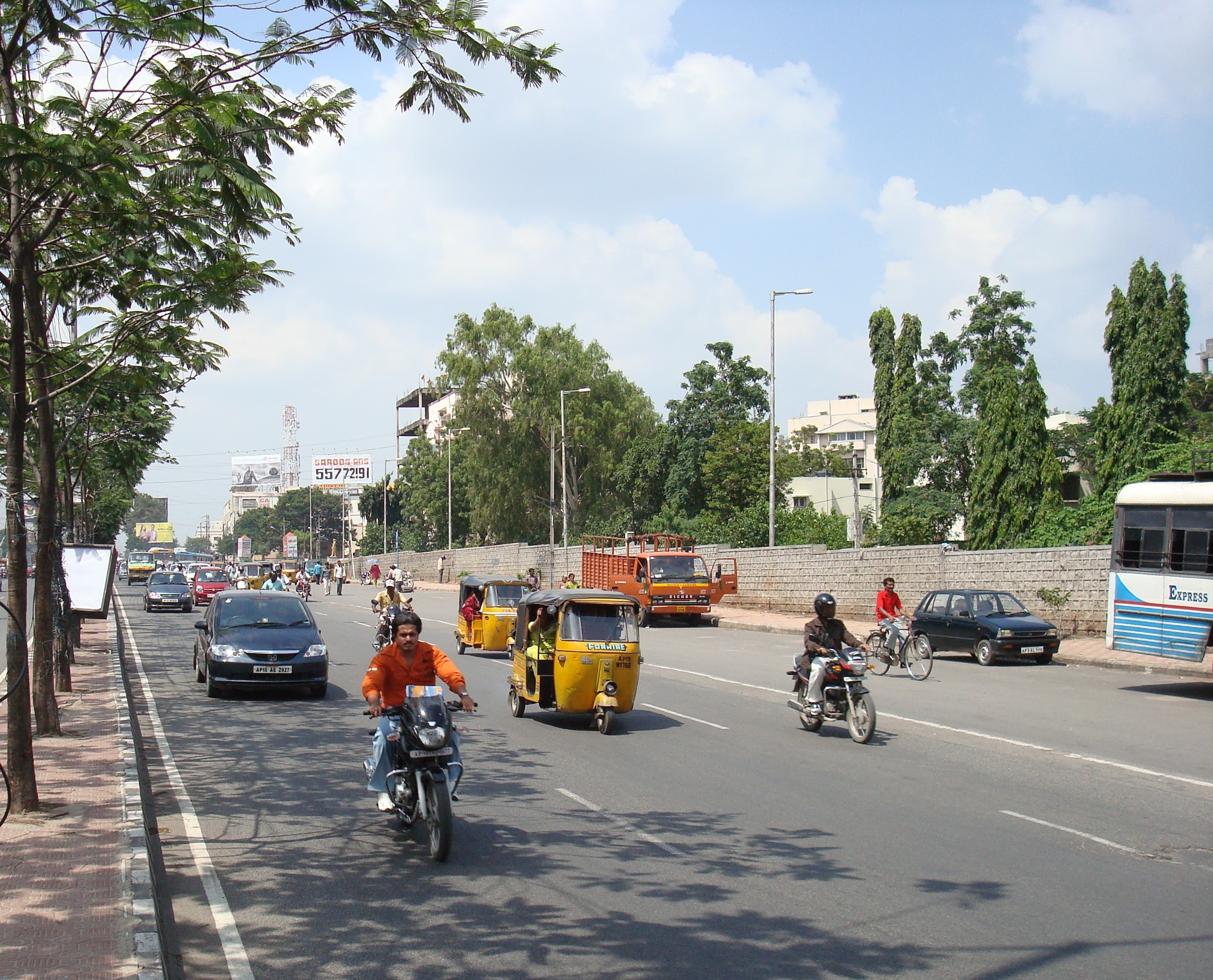 Shown here os the SR nagar main road, a junction on the national highway.